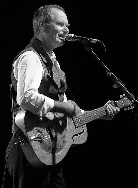 English musician John Parish performing live at ATP in London, United Kingdom on July 23, 2011.